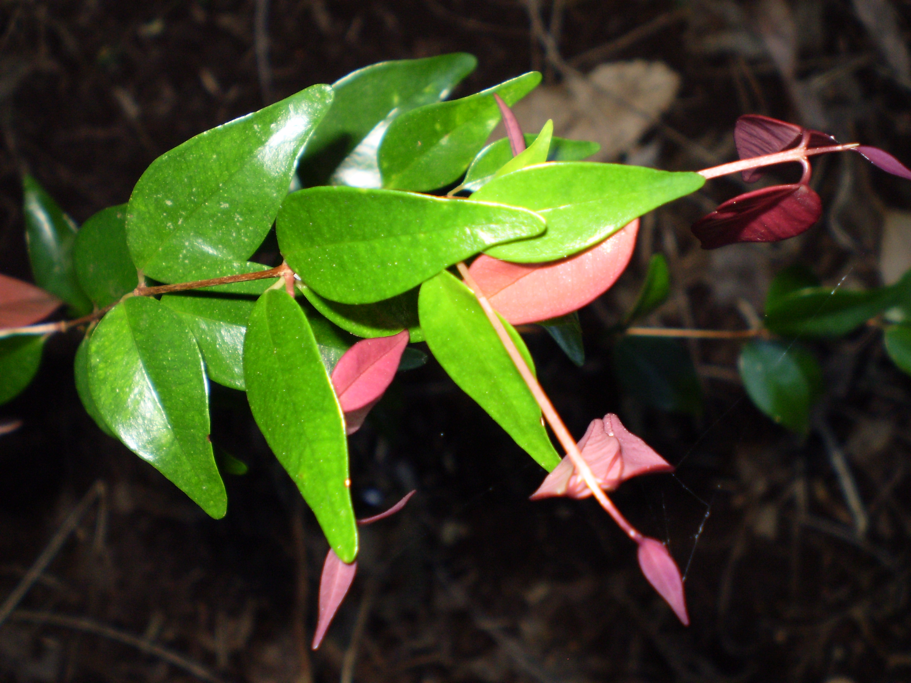 Leaf of Syzygium luehmannii, riberry, showing red new growth.